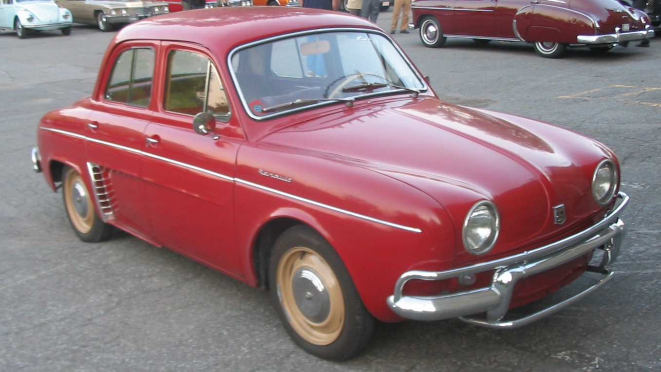 Renault Dauphine photographed in Laval, Quebec, Canada at the Auto classique Ste-Rose.